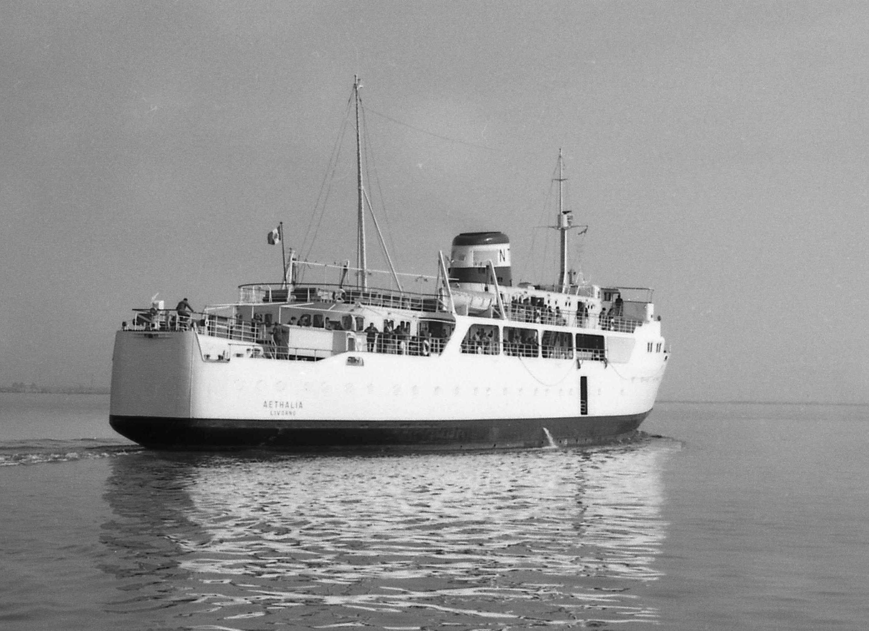 Shipowner: Società di Navigazione Toscana Operator: Società di Navigazione Toscana IMO: 5003887 Type: Ropax Builder: Cantiere navale di Riva Trigoso Yard number: 234 Launch date: February 19, 1956 Delivery date: July 1956 Port of registry: Livorno Gross tonnage: 1,306 t Net tonnage: t DWT: 1,346 t Length overall: 72.40 m Breadth: 12.86 m Draught: 3.52 m Main engine: Fiat diesel engine Engine power: 2,054 kW Speed: 14 knots Passengers: 1,300 Cars: 48 Route: She was employed on the Piombino – Portoferraio route. After names: Pergamus (1989 – 1990), Canadian Spirit (1990 – 2002), scrapped in 2002.